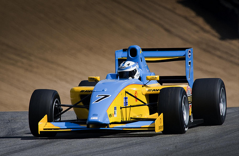 Henry Surtees driving at the Brands Hatch round of the 2009 FIA Formula Two Championship on the day of his first F2 podium